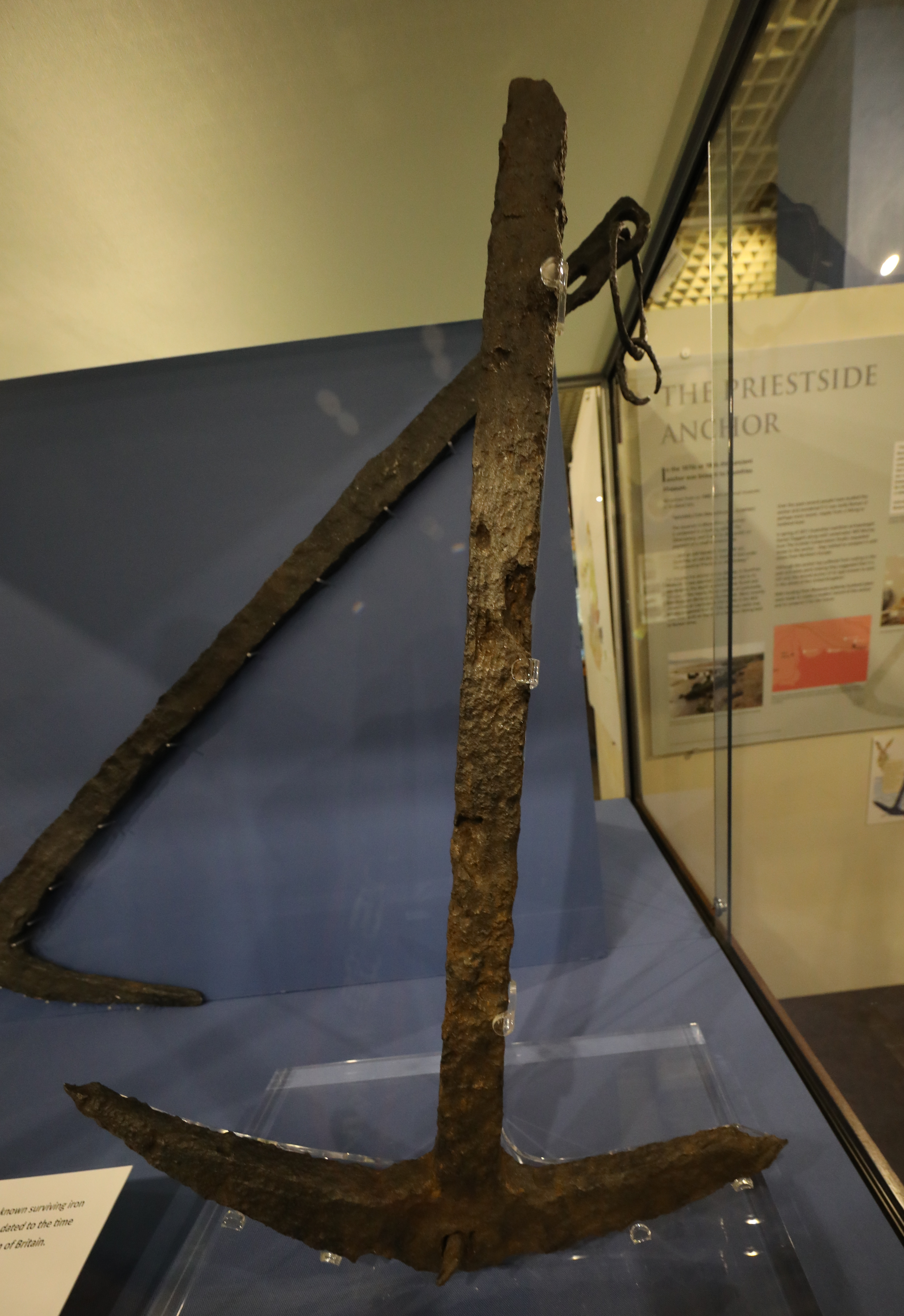 Photo of the priestside roman anchor at the Dumfries Museum